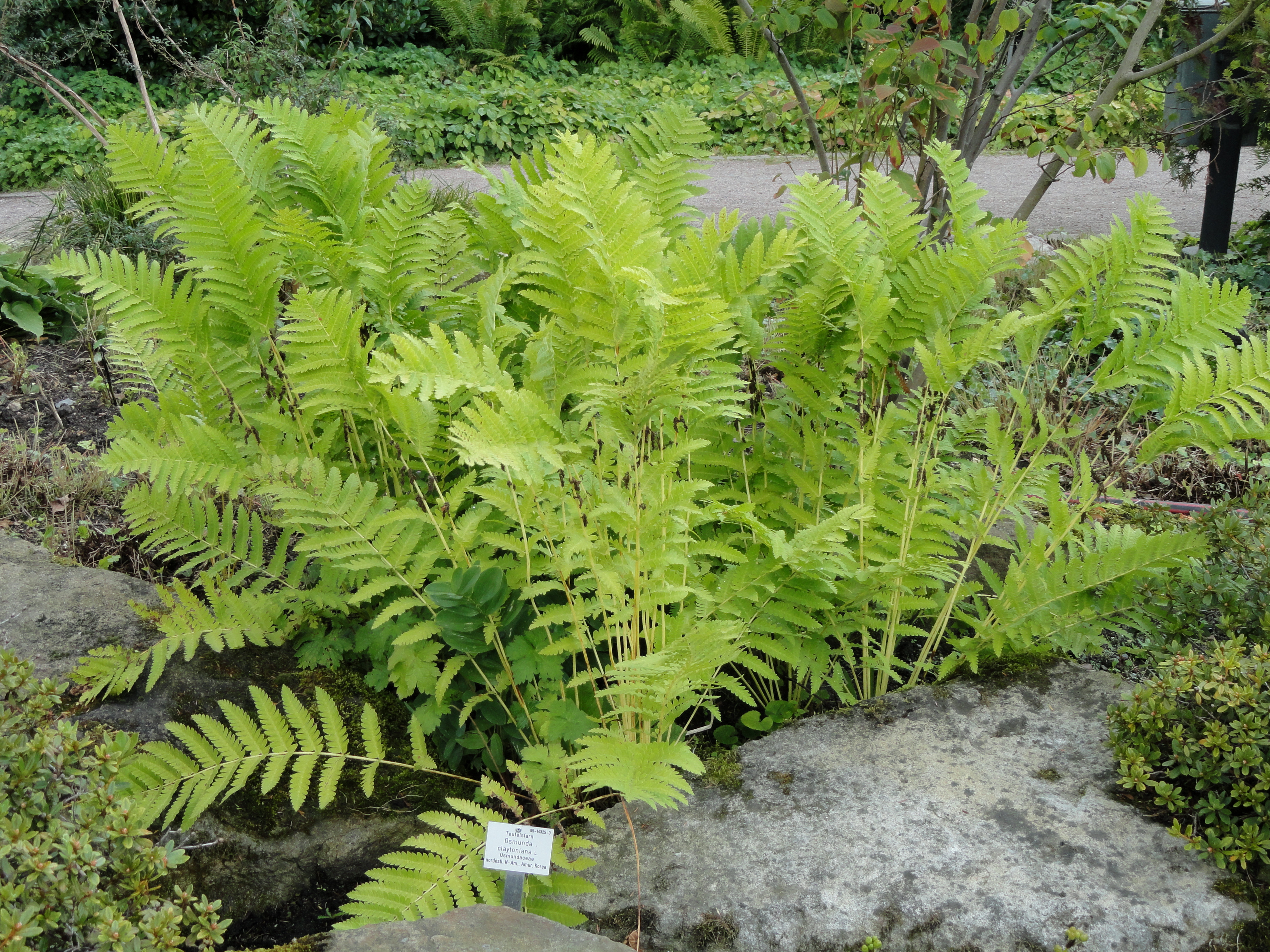 Botanical specimen in the Palmengarten, Frankfurt am Main, Germany.